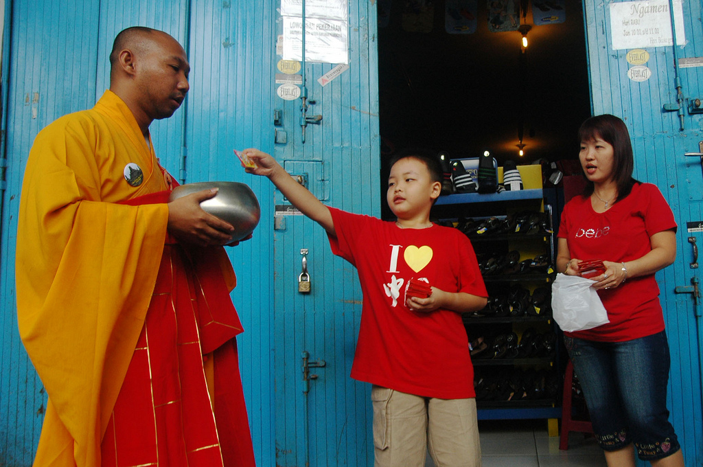 Monks doing Pindapatta before Vessak Day 2010 in Magelang, Central Java, Indonesia (May, 26, 2010)